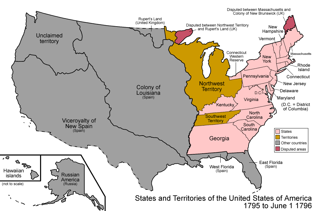 Map of the states and territories of the United States as it was from 1795 to 1796. On October 27, 1795 Spain and the United States signed "Pinckney's Treaty," which resolved—in the United States' favor—a territorial dispute over the part of Spanish West Florida between 31°N and 32° 22′. The treaty became effective on August 3, 1796. Georgia considered this territory to be a part of its western land claim. On June 1 1796, the Southwest Territory was admitted as the state of Tennessee.